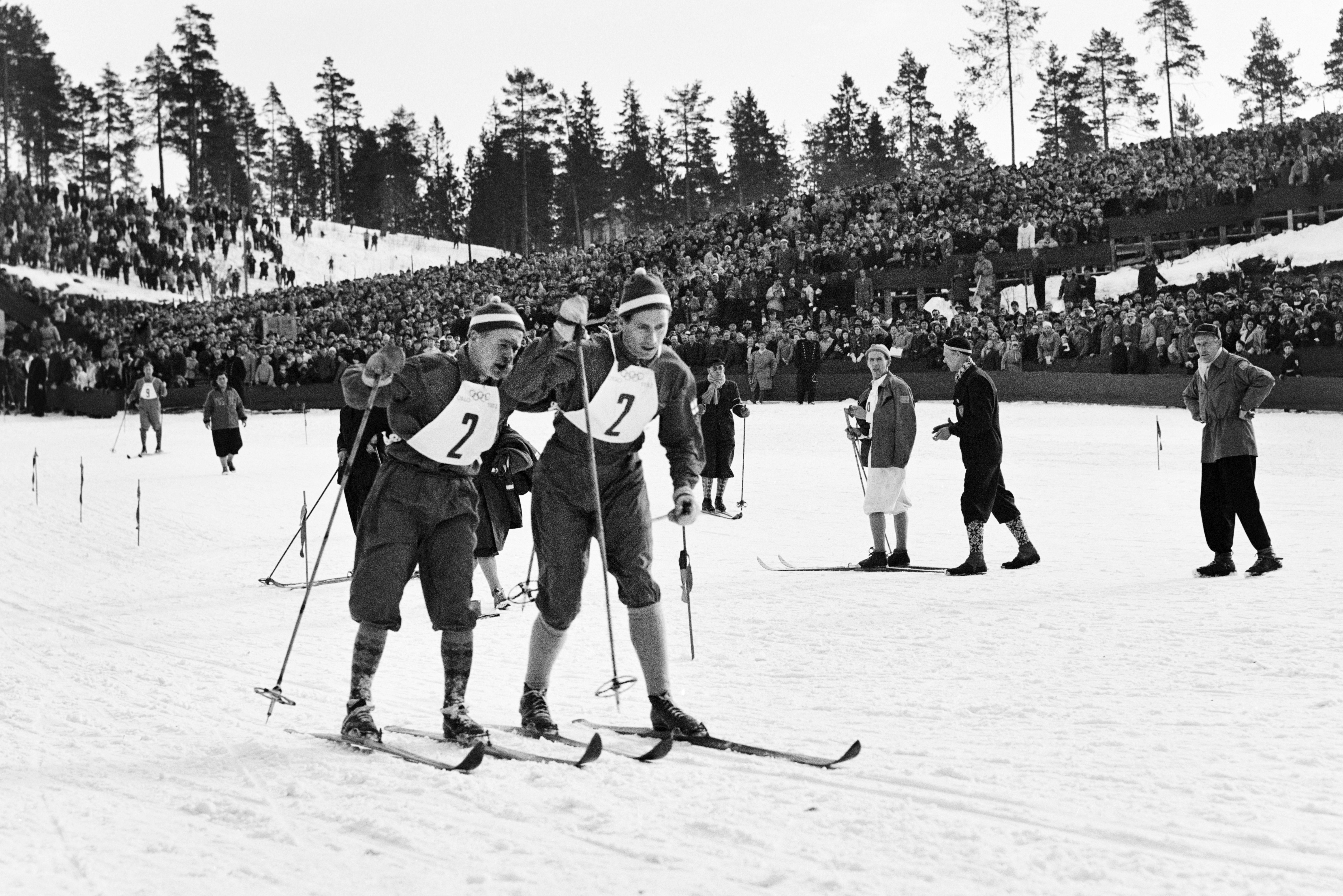 Photograph of the Finnish skiers Paavo Lonkila (left) and Urpo Korhonen of the Finnish team at the 4×10 km relay, 1952 Winter Olympics in Oslo, won by the Finnish team.